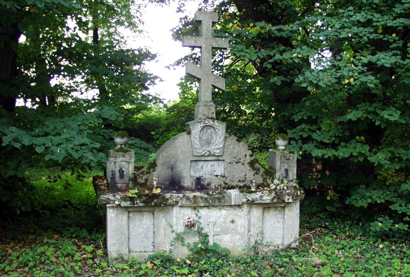 Nowe Sady (Poland), Greek Catholic church, cemetery